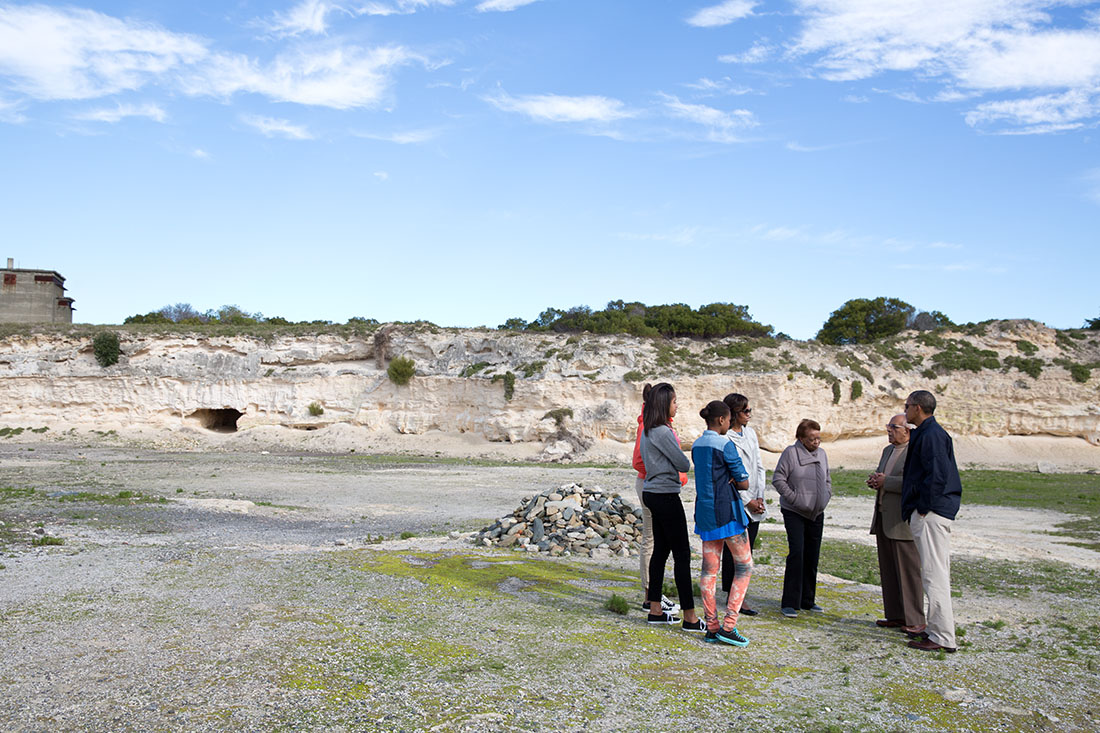 President Barack Obama and First Lady Michelle Obama, along with Leslie Robinson, daughters Malia and Sasha, and Marian Robinson, tour the Lime Quarry on Robben Island in Cape Town, South Africa, June 30, 2013. Ahmed Kathrada, a former prisoner in Robben Island Prison, leads their tour. (Official White House Photo by Pete Souza)